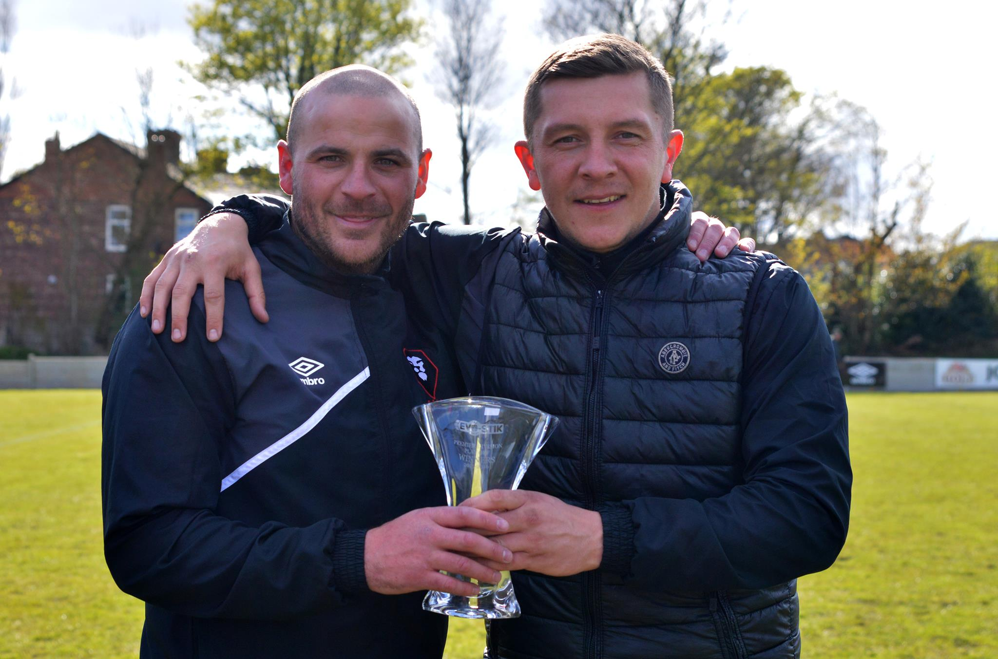 Joint managers of Salford City FC since 2nd January 2015.